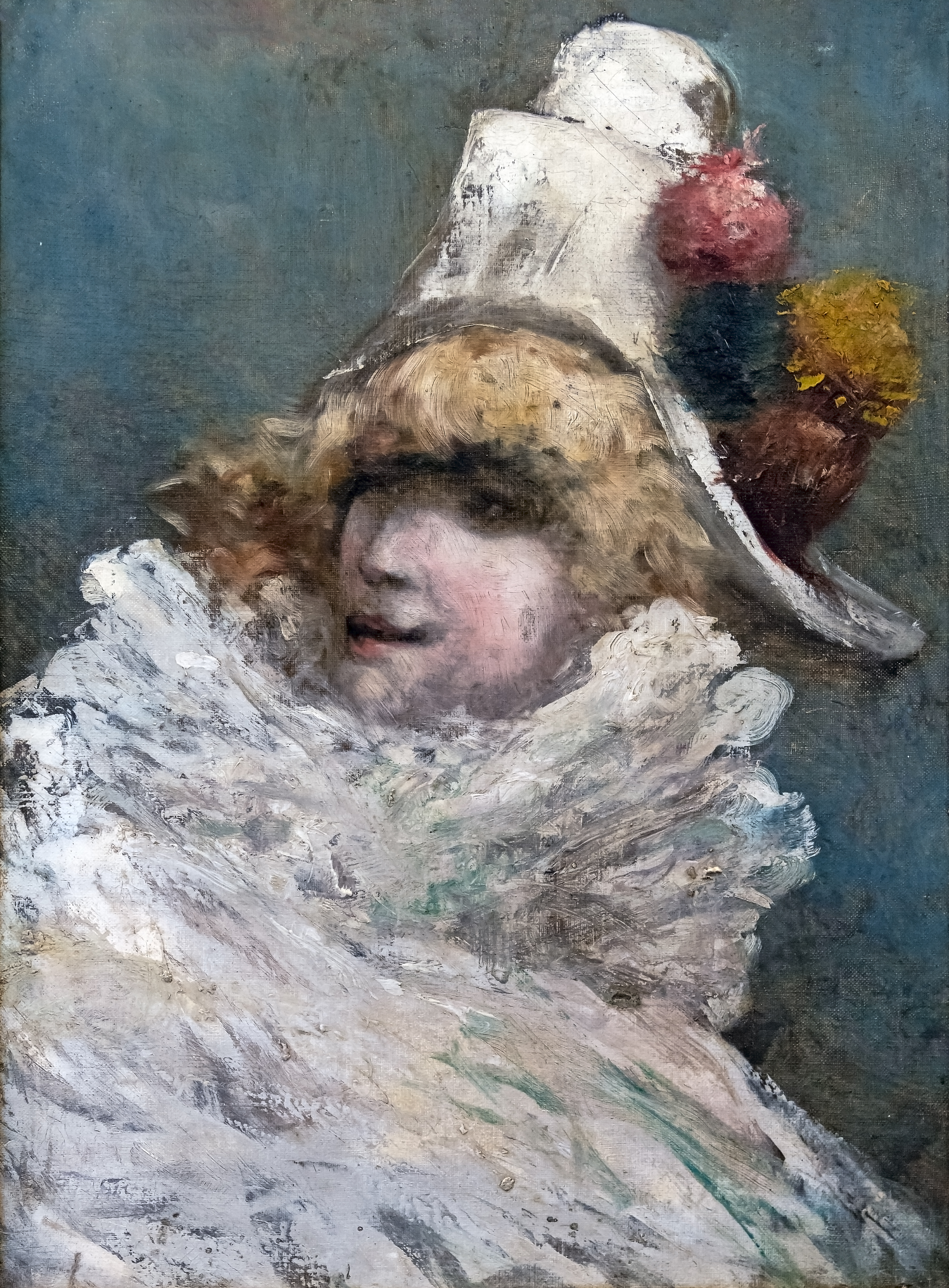 Depicted person: Sarah Bernhardt – French actress